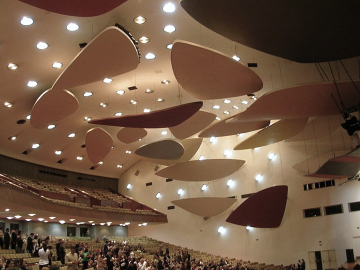 Aula Magna, "Acoustic Clouds" (1953) by Alexander Calder. Central University of Venezuela